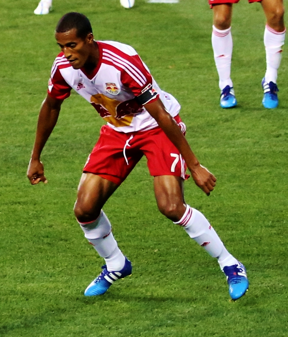 Roy Miller Red Bulls.